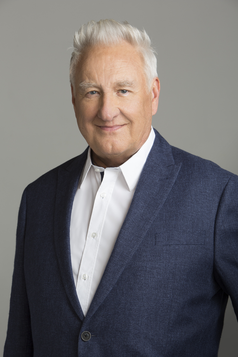 Don Mischer